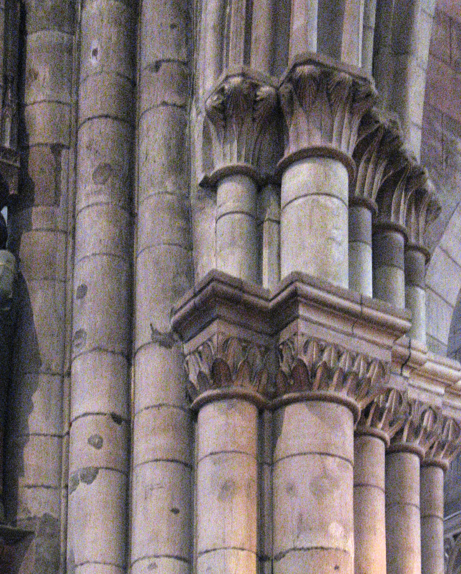 The change in style during the construction of Freiburg's cathedral required an increase in height of the Romanesque supporting structure for the bays of the gothic nave